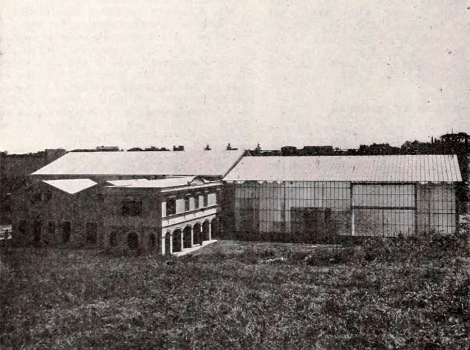 The Fox Film studio in Rome, Italy, where the American-Italian film Nero (1922) was made, from page 56 of the January 21, 1922 Exhibitors Herald. The studio was closed after making this single film.